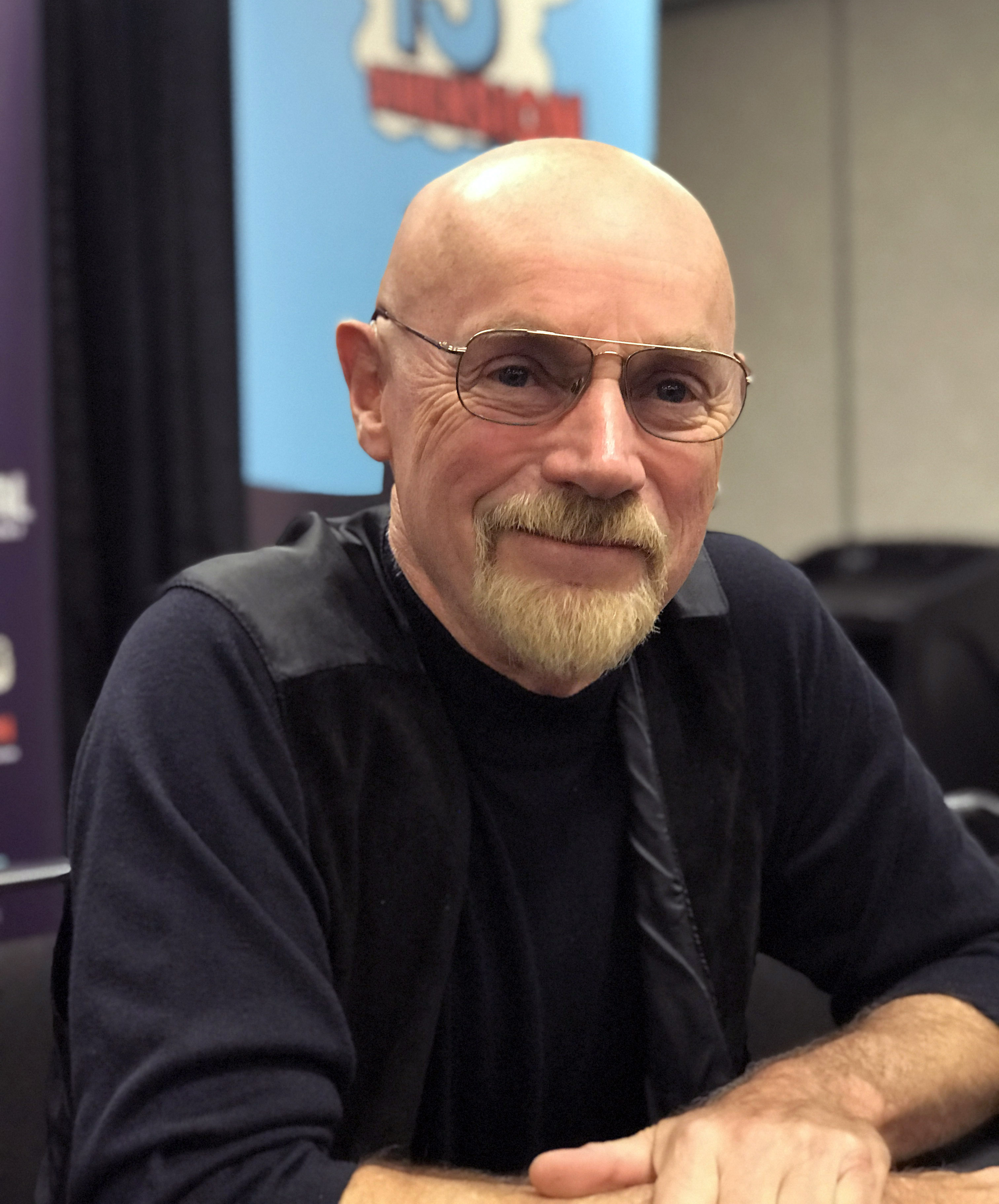 Comic book creator Jim Starlin during a Q&A discussion at the Meadowlands Exposition Center in Secaucus, New Jersey on Sunday, April 29, 2018, Day 3 of the East Coast Comicon. This photo was created by Luigi Novi. It is not in the public domain, and use of this file outside of the licensing terms is a copyright violation.